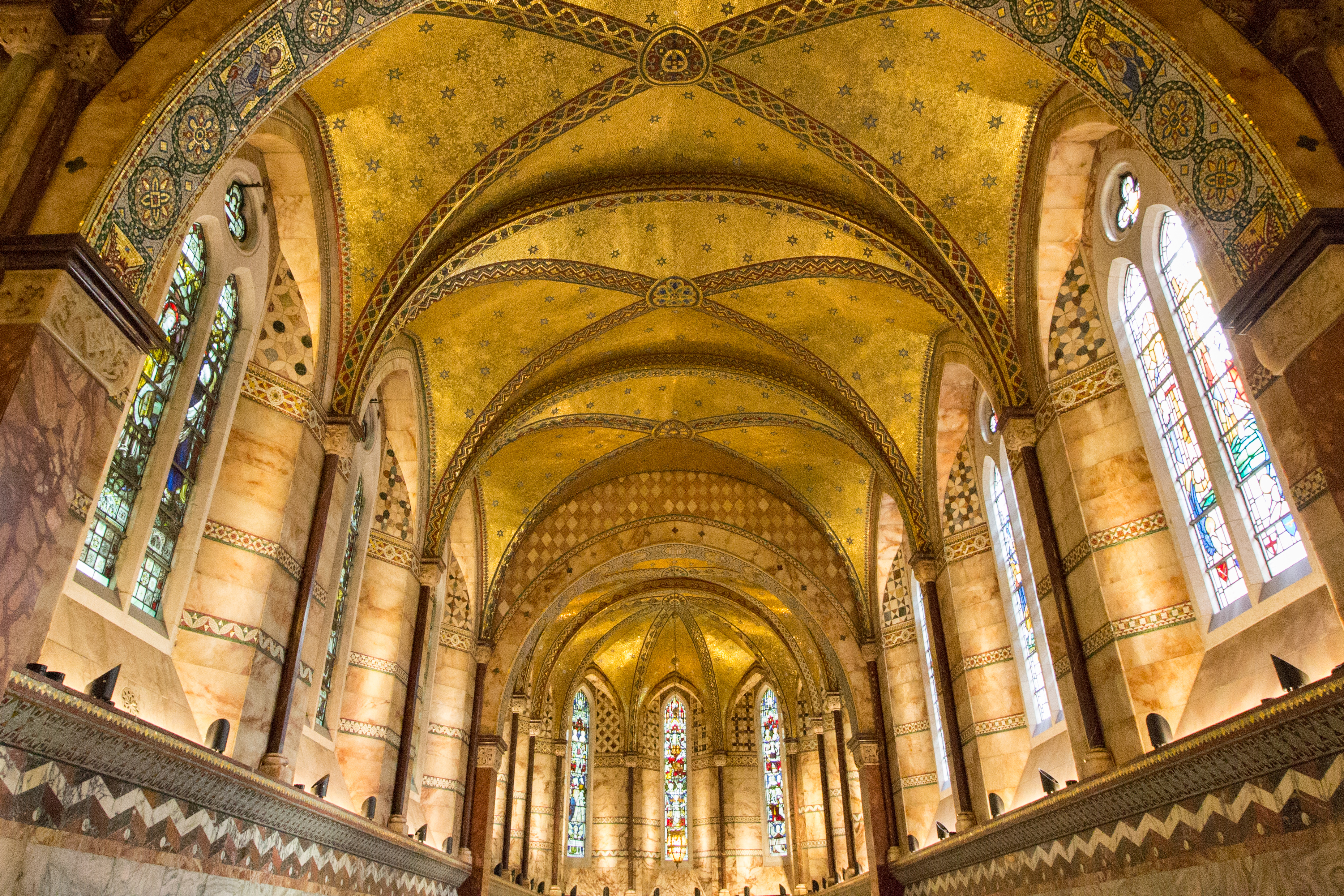 The former Middlesex Hospital Chapel, now restored beautifully. Open to the public for the first time as part of Open House London 2015. Apologies for the noisy images, it was quite dark and crowded.